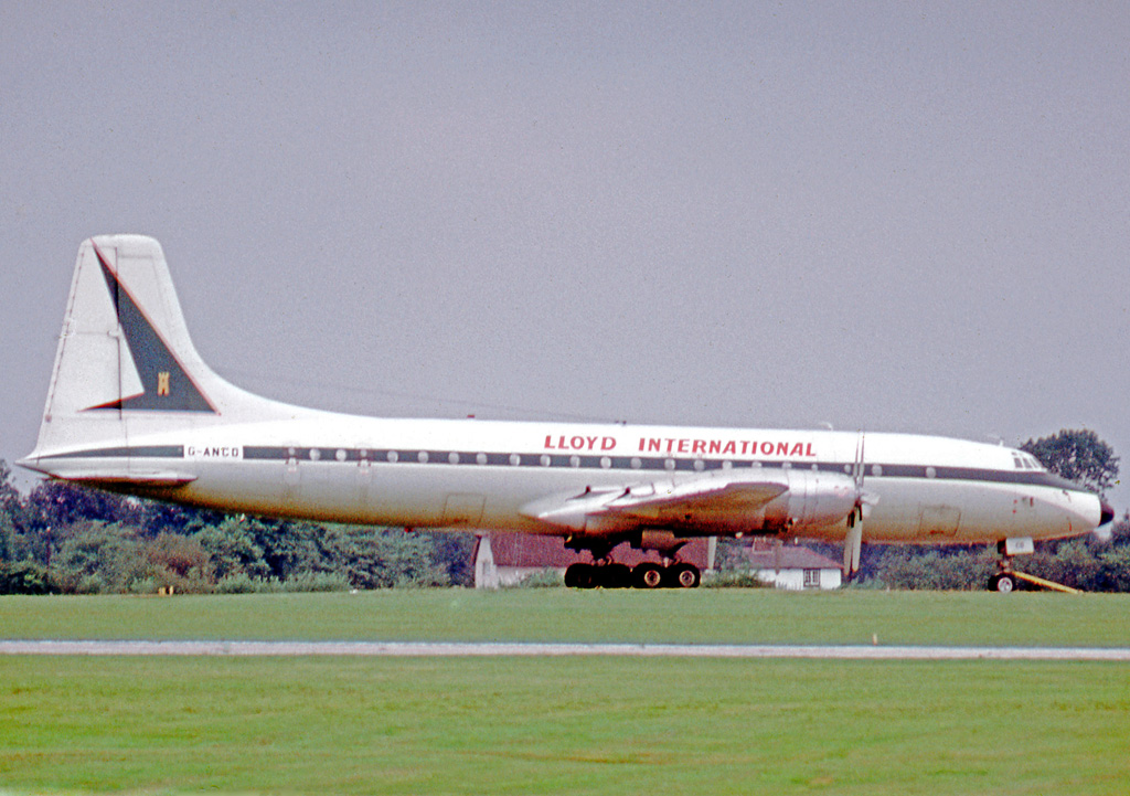 Bristol 175 Britannia 307 G-ANCD of Lloyd International Airways at London Stansted in 1972